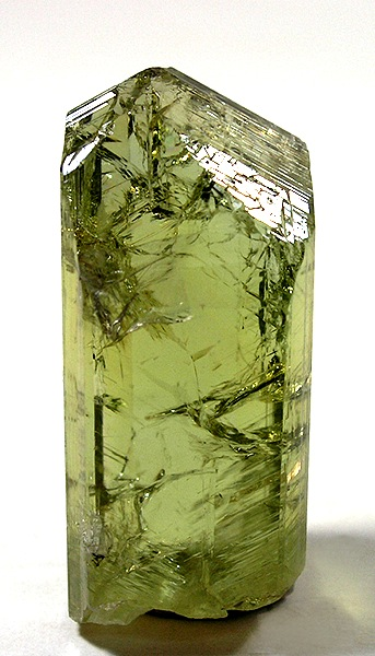 Zoisite Locality: Merelani Hills (Mererani), Lelatema Mts, Arusha Region, Tanzania (Locality at ) Size: thumbnail, 3.1 x 1.4 x 1.3 cm Zoisite or yellow Tanzanite A VERY GEMMY, extremely colorful piece of this rare zoisite varietal which seems to turn up only very rarely, in small pockets, at this series of mines and pits famous for blue Tanzanite. This is an excellent piece with extremely glassy lustre, better than indicated in the pics and so brilliant that it looks polished (but is not!). Weight 86 carats!